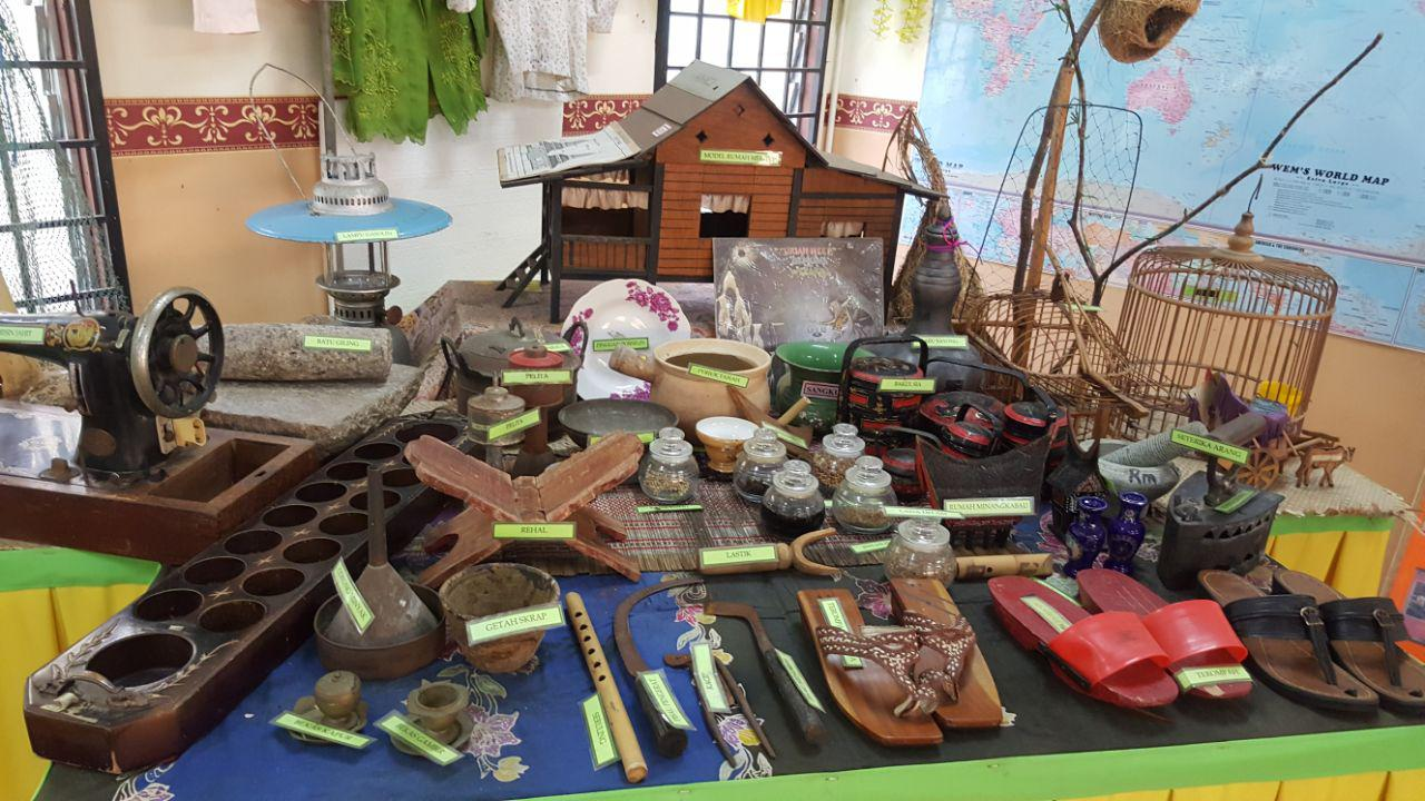 barangan antik